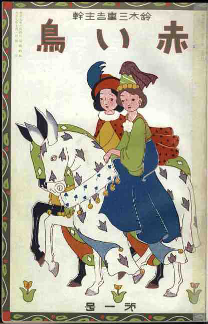 Cover of the first issue of magazine Akai-tori(赤い鳥).